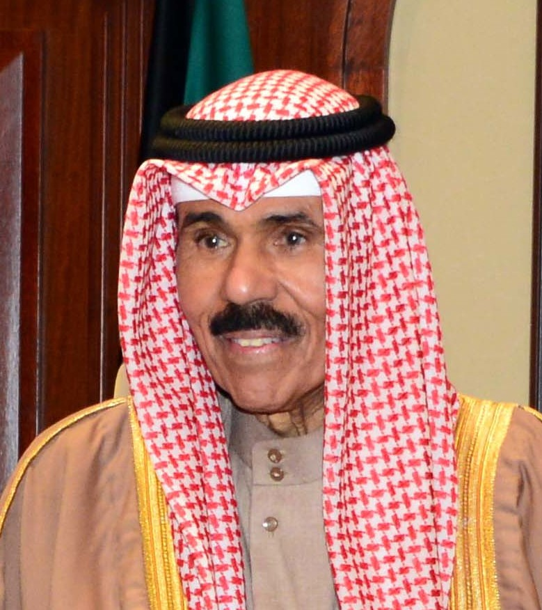 El Canciller Argentino Jorge Faurie y la delegacion Argentina se reunen con el Principe Heredero de Kuwait Jeque Nawaf Al Sabah en el Palacio de Bayan, durante su visita a Kuwait